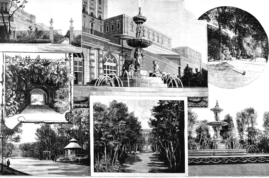 Tritones Fountain in Campo del Moro (Royal Palace of Madrid, Spain)